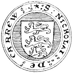 1611 Drawing by Nicholas Charles, Lancaster Herald, of seal of Nicholas Carew (d.1311) appended to Barons' Letter 1301